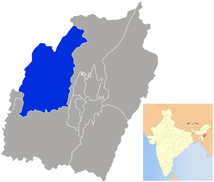 Tamenglong district in Manipur